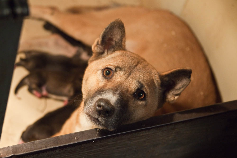 Singing Dog With Young Puppies Note Dark Coloration of Newborns.